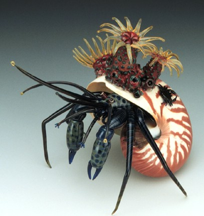 This sculpture is an artist's impression of Pagurus prideaux and Adamsia palliata, here inhabiting (impossibly) a Nautilus shell instead of a gastropod shell.